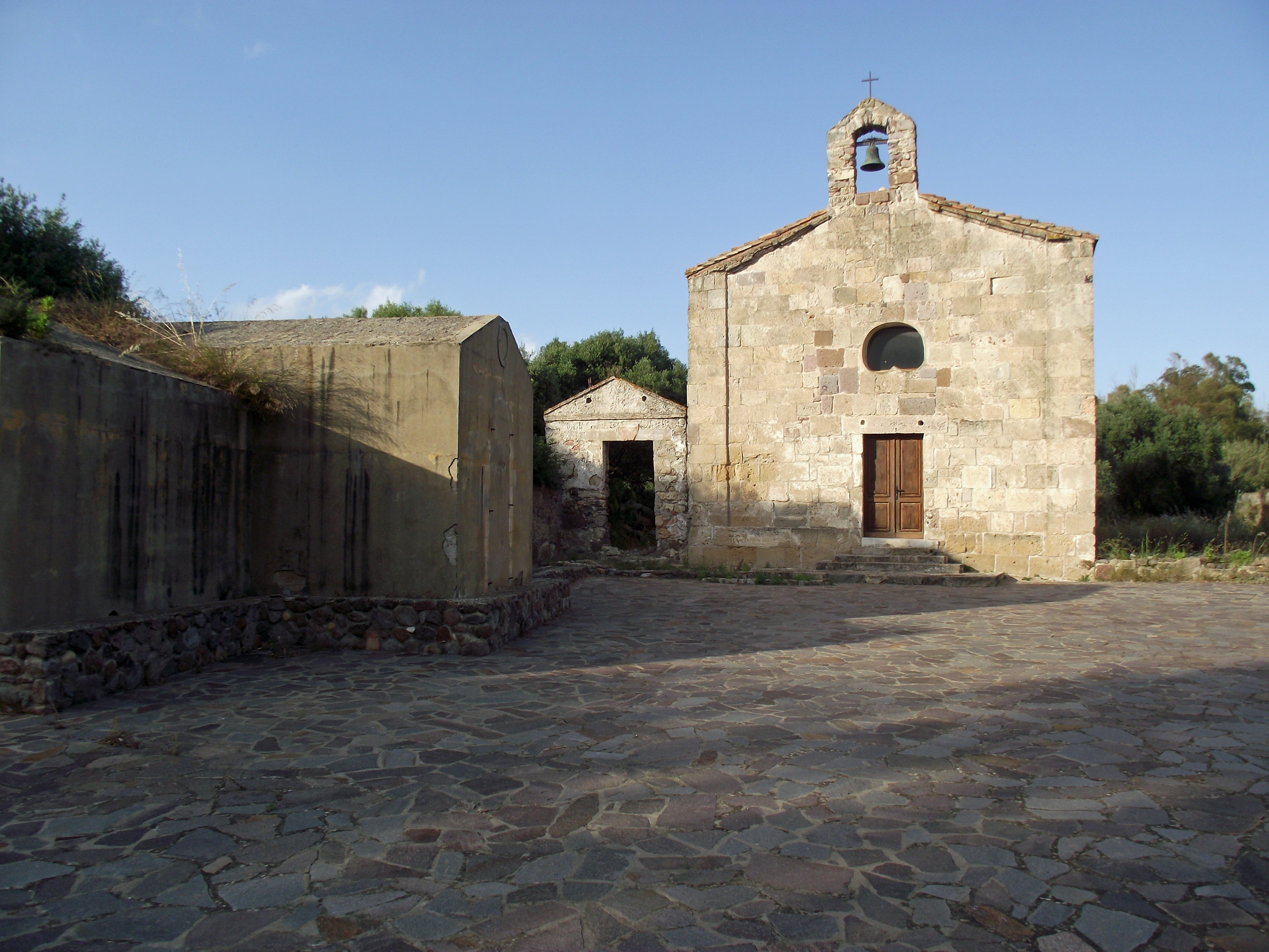 Detail of Santa Maria church in Palmas Vecchio (San Giovanni Suergiu, Sardinia, Italy), 11th century. On its left a casemate made during the World War II